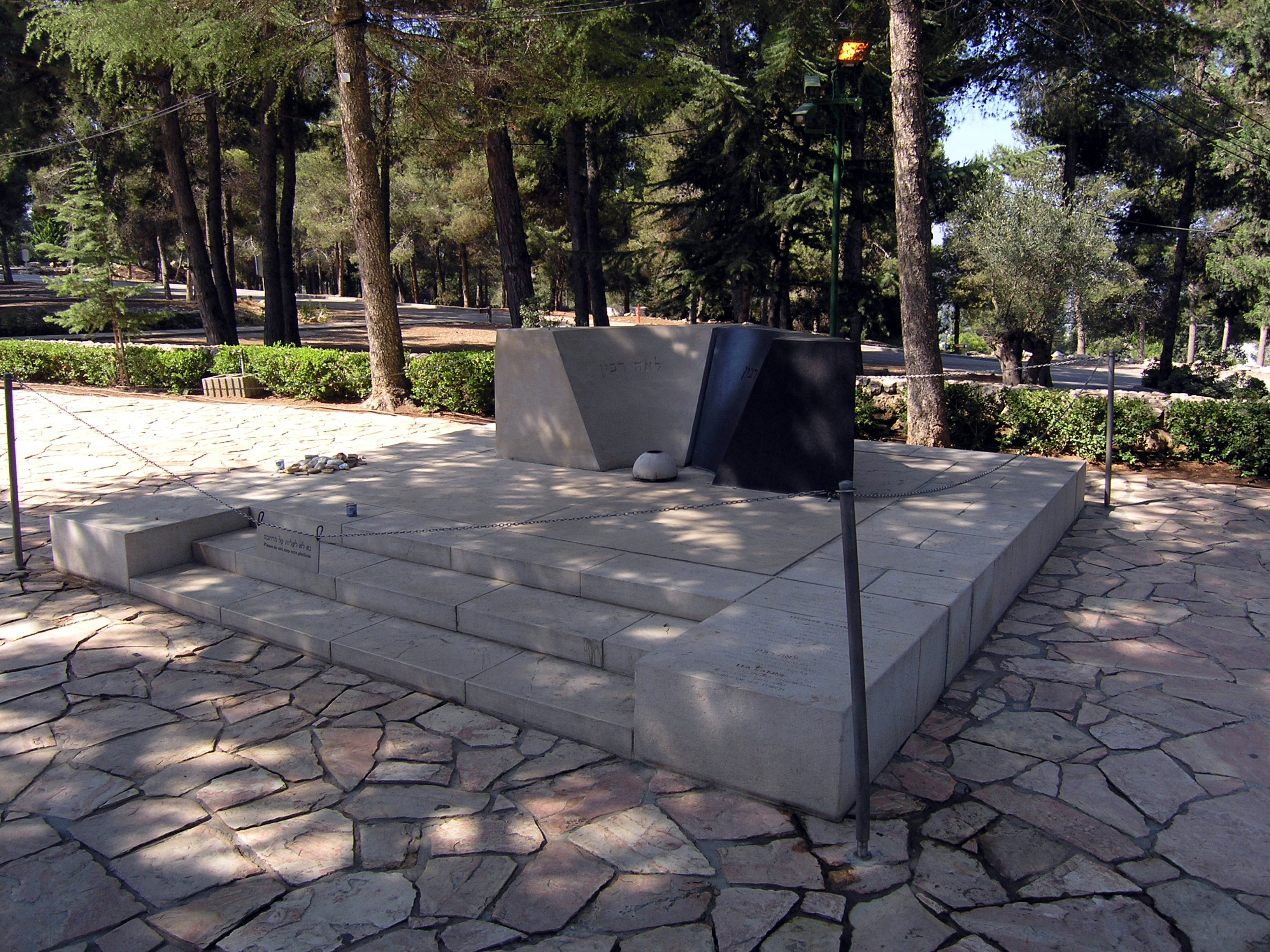 Yitzhak Rabin and Lea graves, Jerusalem (Israel)